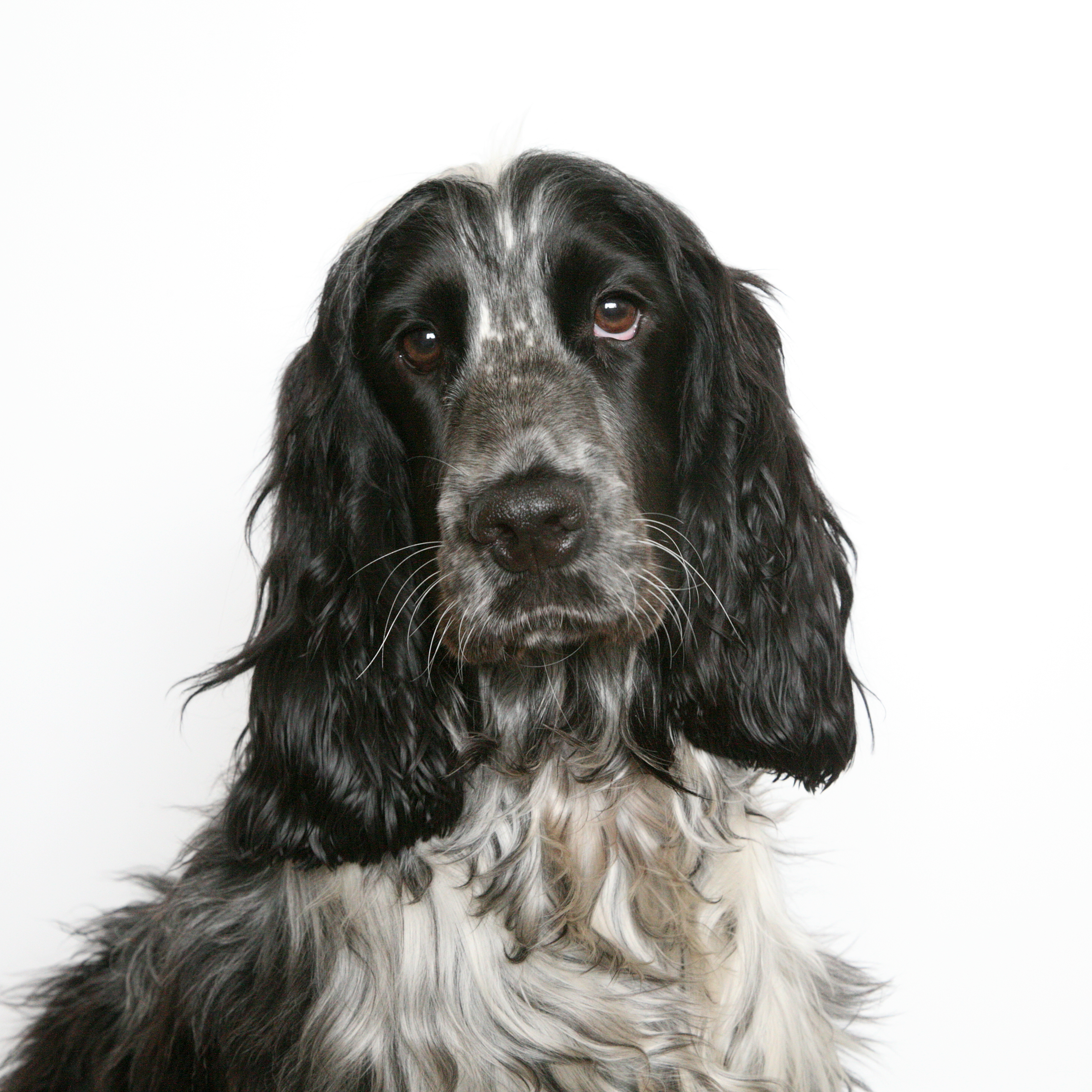 English Cocker Spaniel, 8 months old